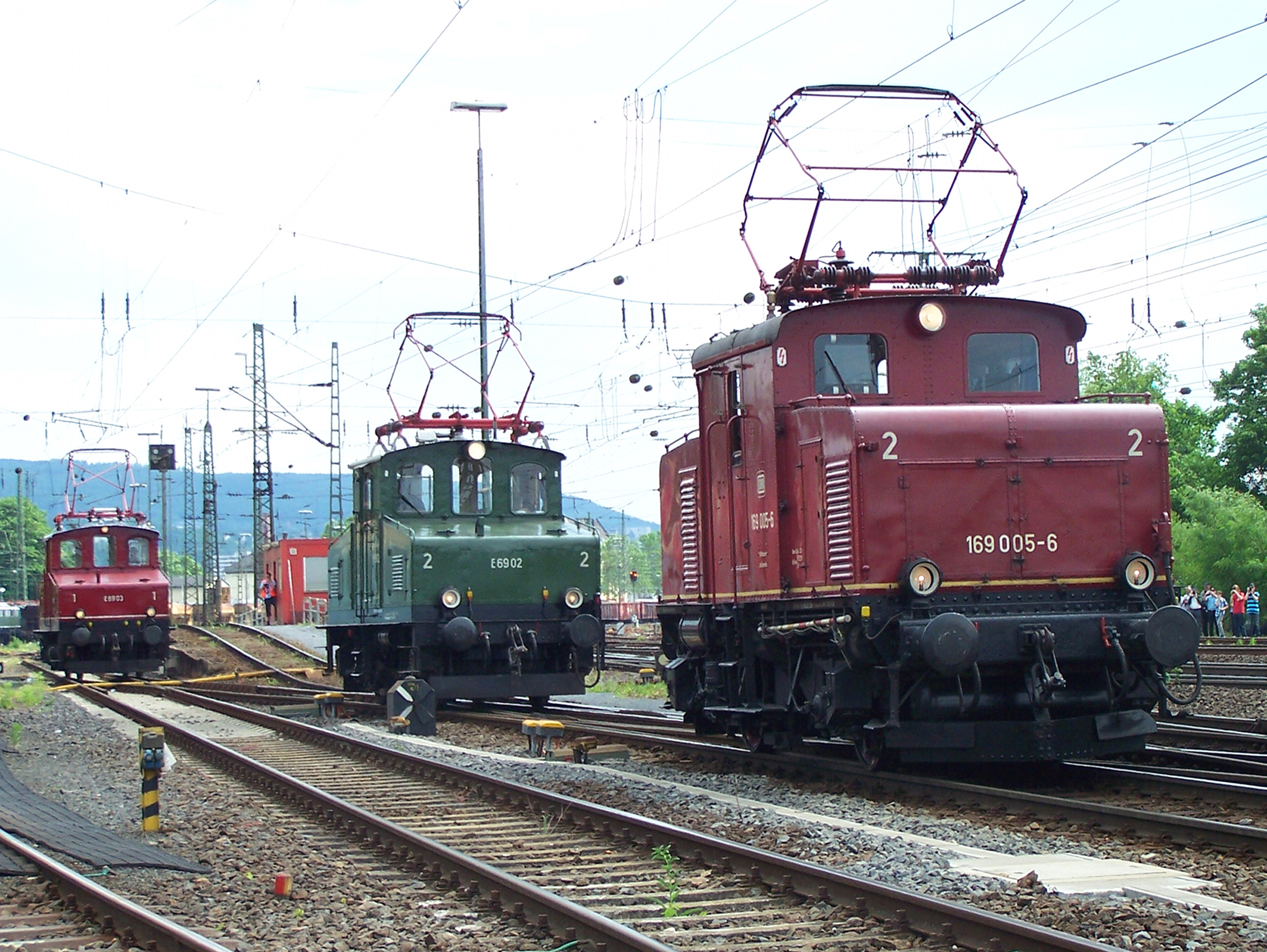 Historical DB electrical locomotives E69 02 + E69 03 + E69 05 during a locomotive parade at the DB Museum in Koblenz-Luetzel, a local branch of the Transport Museum in Nuremberg, June 2012